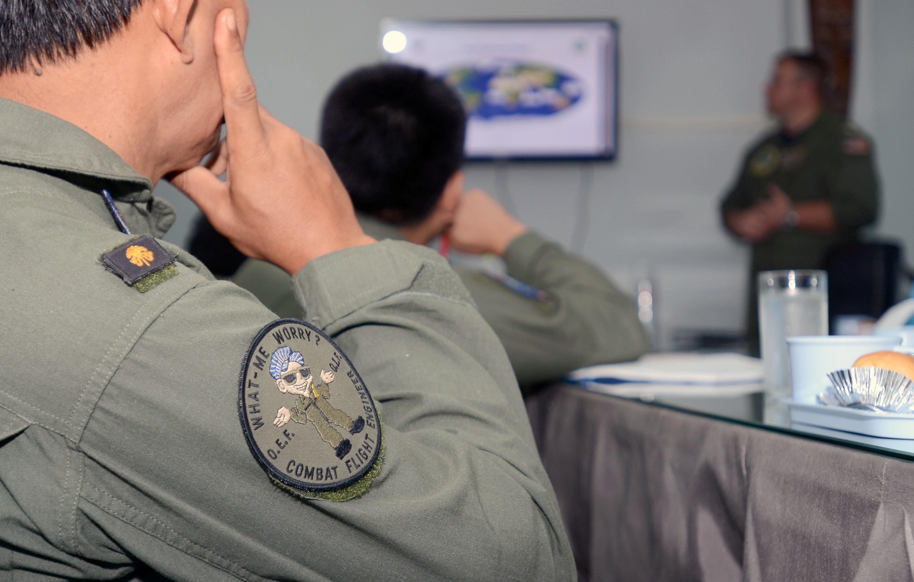 A Royal Thai Navy pilot shares best practices June 4, 2013, during a maritime patrol and recognizance aircraft symposium in support of Cooperation Afloat Readiness and Training (CARAT) 2013 at U-Tapao Royal Thai Navy Airfield, Thailand. CARAT is a series of bilateral exercises held annually in Southeast Asia to strengthen relationships and enhance force readiness.